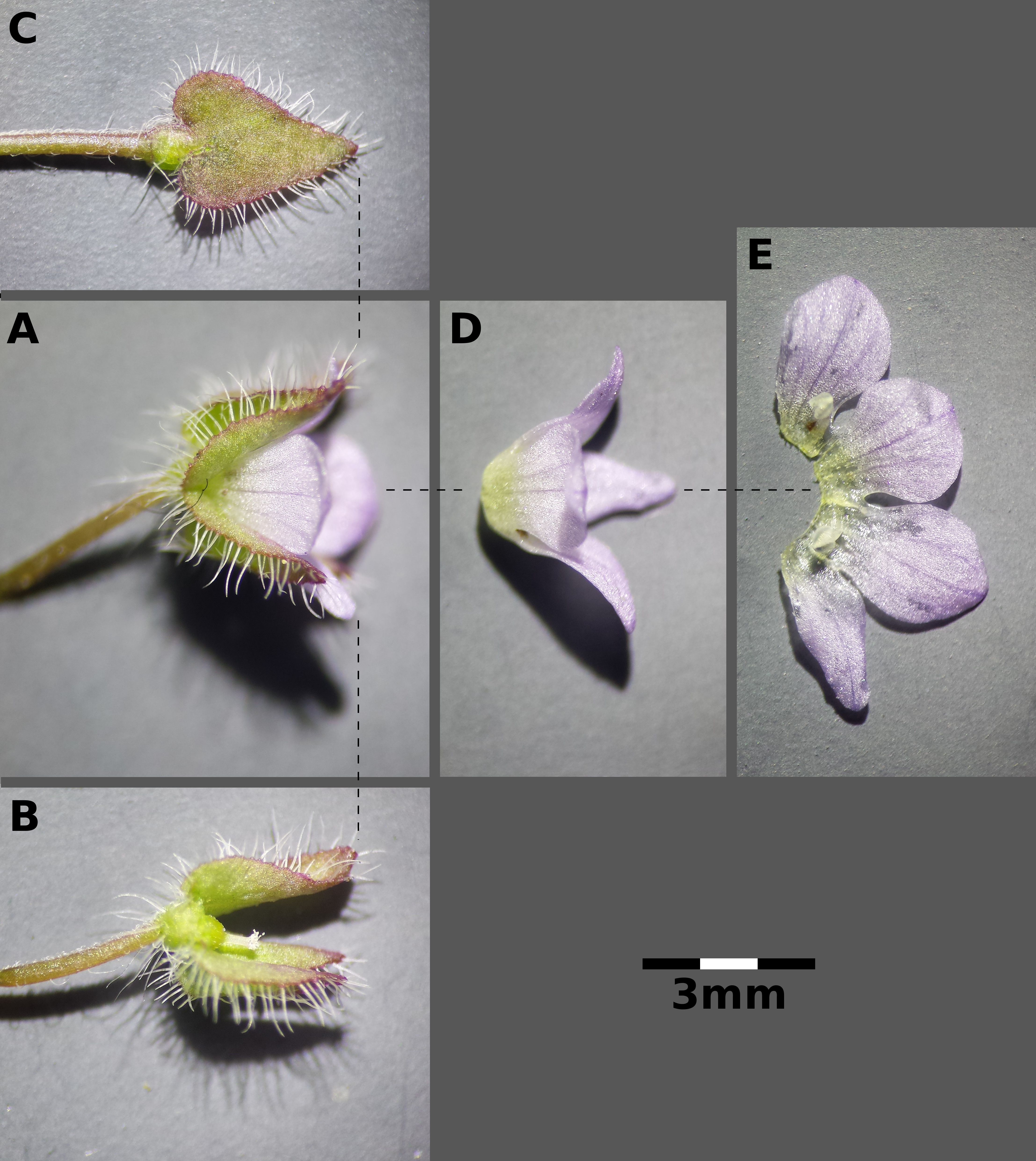 A: Flower B: Flower opened, ovary and stylus C: Pedicel with a single row of hairs, three-cornered-heart-shaped, ciliated sepal, its surface is hairless D: Light magenta-purple corolla E: Corolla with vague white center Taxonym: Veronica sublobata ss Fischer et al. EfÖLS 2008 ISBN 978-3-85474-187-9 Location: near Niederhollabrunn, district Korneuburg, Lower Austria - ca. 350 m a.s.l. Habitat: border of a shrubbery